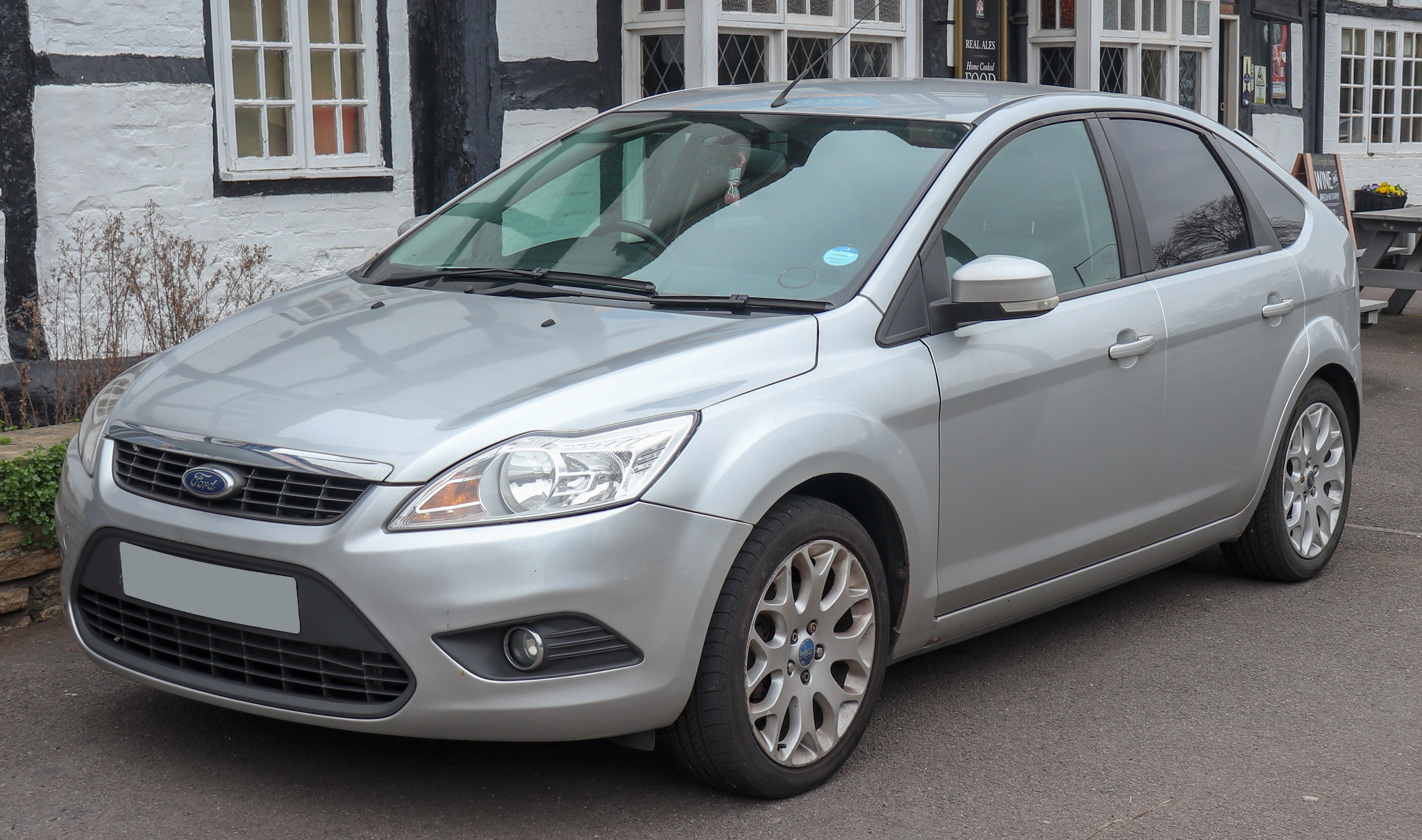 2008 Ford Focus Zetec TD 109 1.6 Front Taken in Warwick